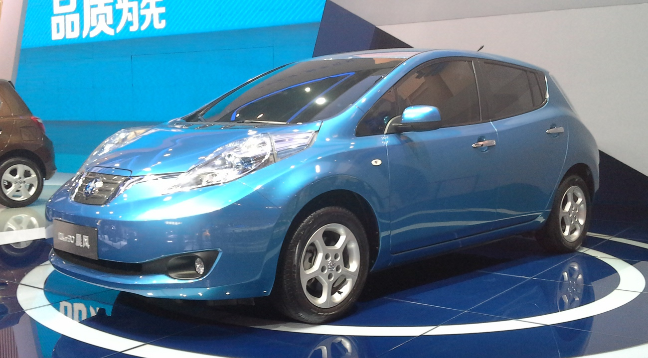 Venucia e30 Chénfēng photographed at the Auto China 2014, Beijing, China.